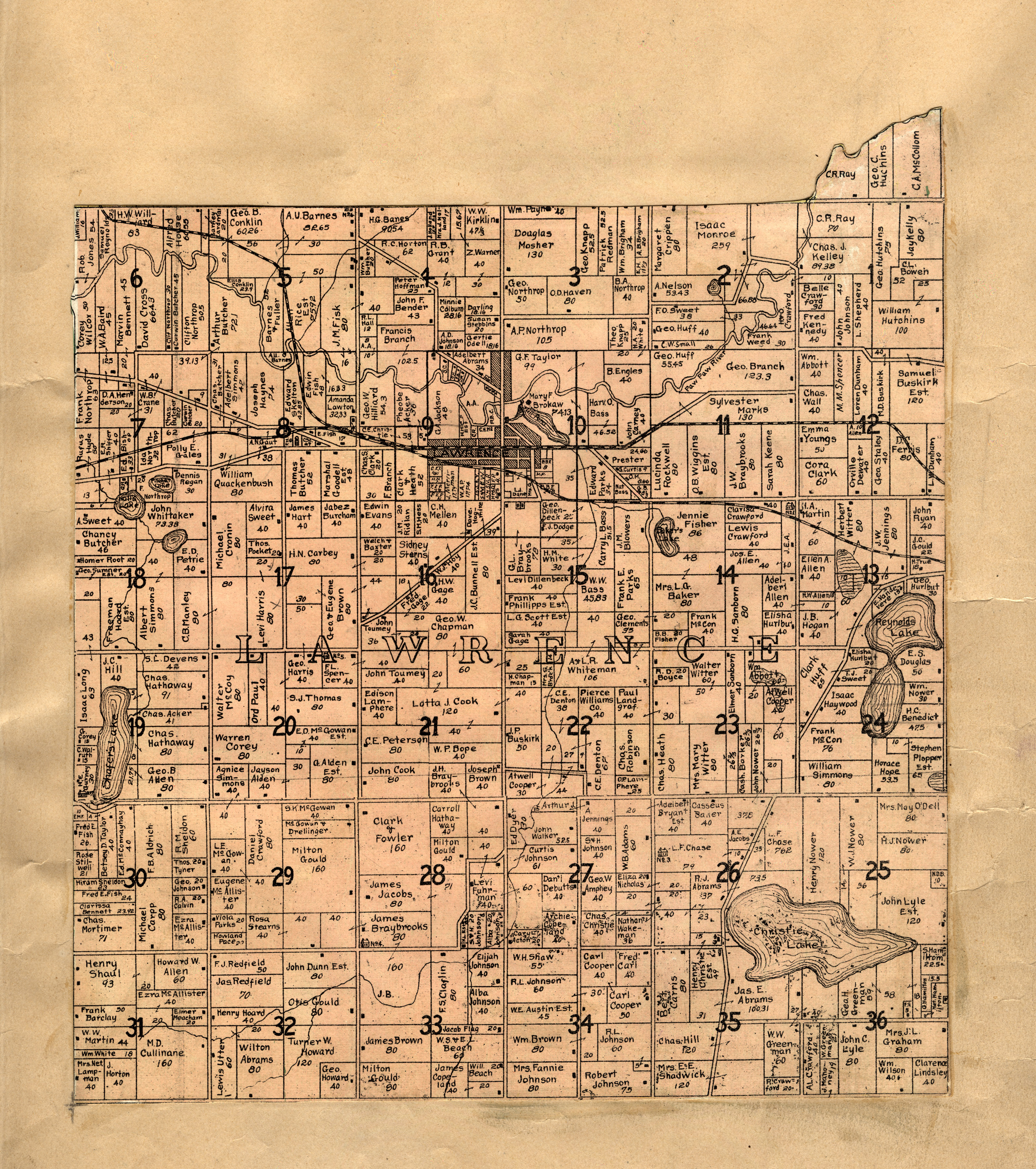 Digital scan of the Lawrence Township portion of a larger 1906 map of Van Buren County, Michigan. The county map was cut into township-sized pieces, and the pieces were later found pasted into an 1895 atlas of Van Buren County, now in the collection of the Michigan State University Map Library. Each township map cut from the 1906 county map was pasted onto a blank page opposite the map of the corresponding township in the 1895 county atlas. Shows parcel boundaries and names of property owners, Public Land Survey System township and section numbering, roads, railroads, residences, schools, churches, municipalities, and water features. Print version was cut from map: Orton, M. K. A farm map of Vanburen County, Michigan / compiled from official records and local inspection by W.H. Goss, County Surveyor ; drawn by M.K. Orton. Rockford, Ill. : W.W. Hixson, [1906]. MSU Libraries catalog record